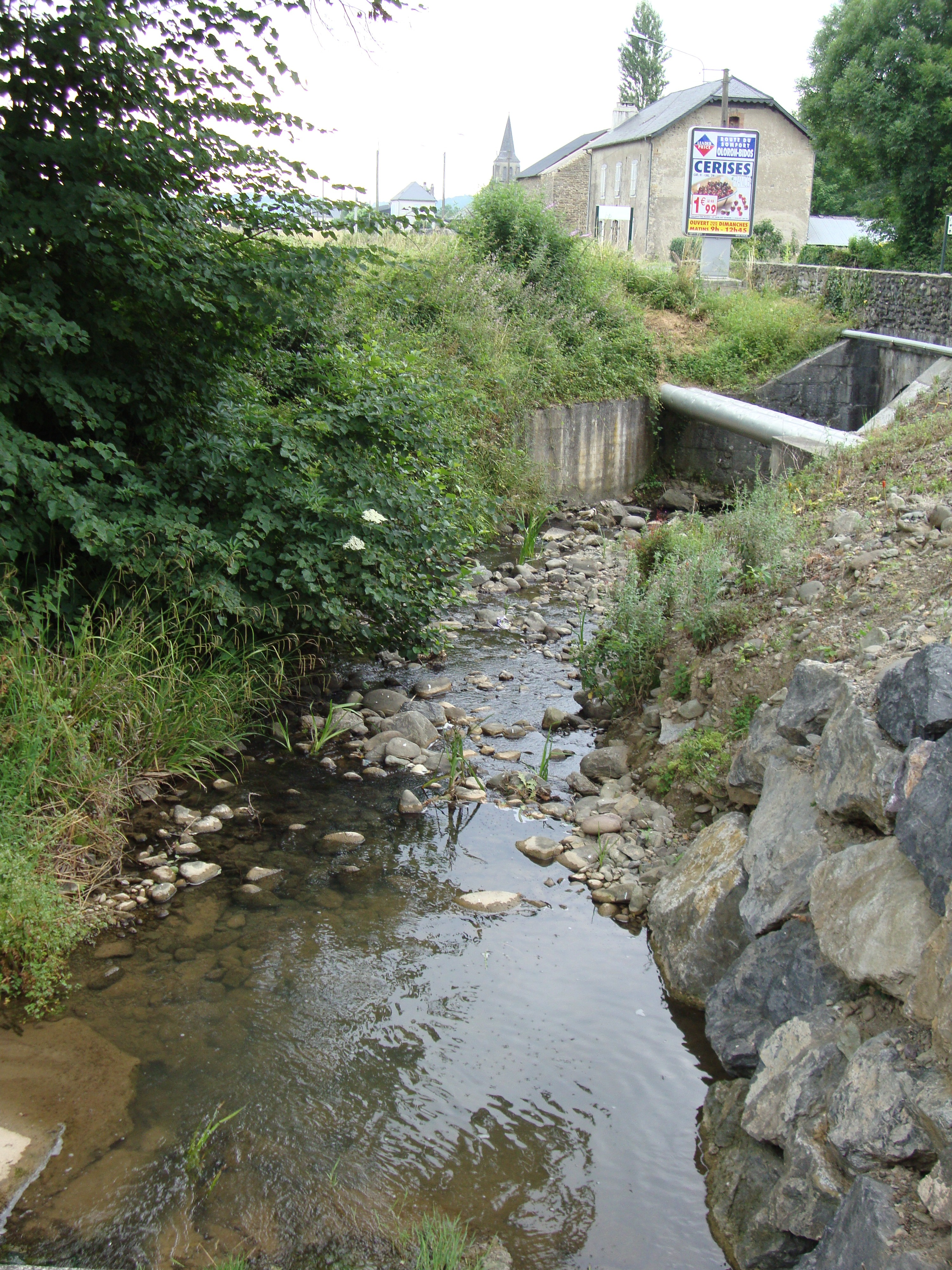 Arros d'Oloron (Asasp-Arros, Pyr-Atl, Fr) Toupiette river.